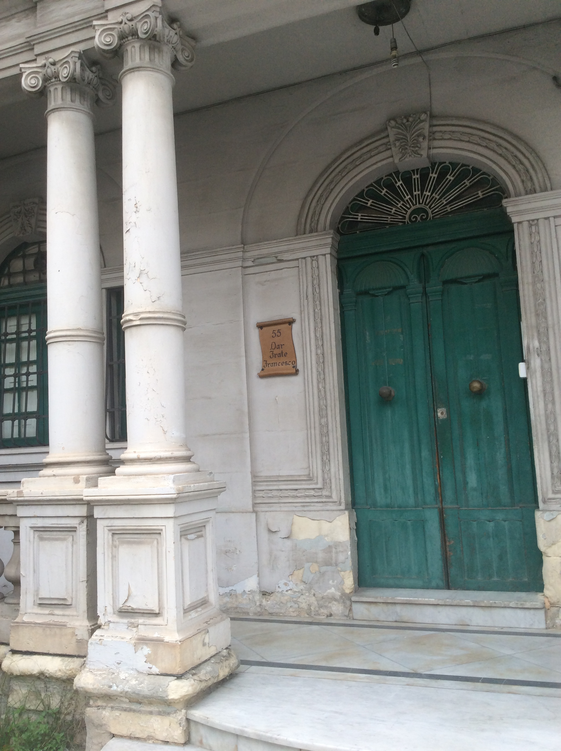 Dar Frate Francesco, main entrance of Villa Lauri